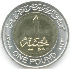 Egyptian coin 1 pound